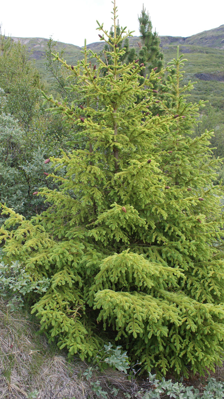 Spruce specimen in Arboretum Groenlandicum, a garden with set of transplanted boreal trees in Narsarsuaq, Greenland.